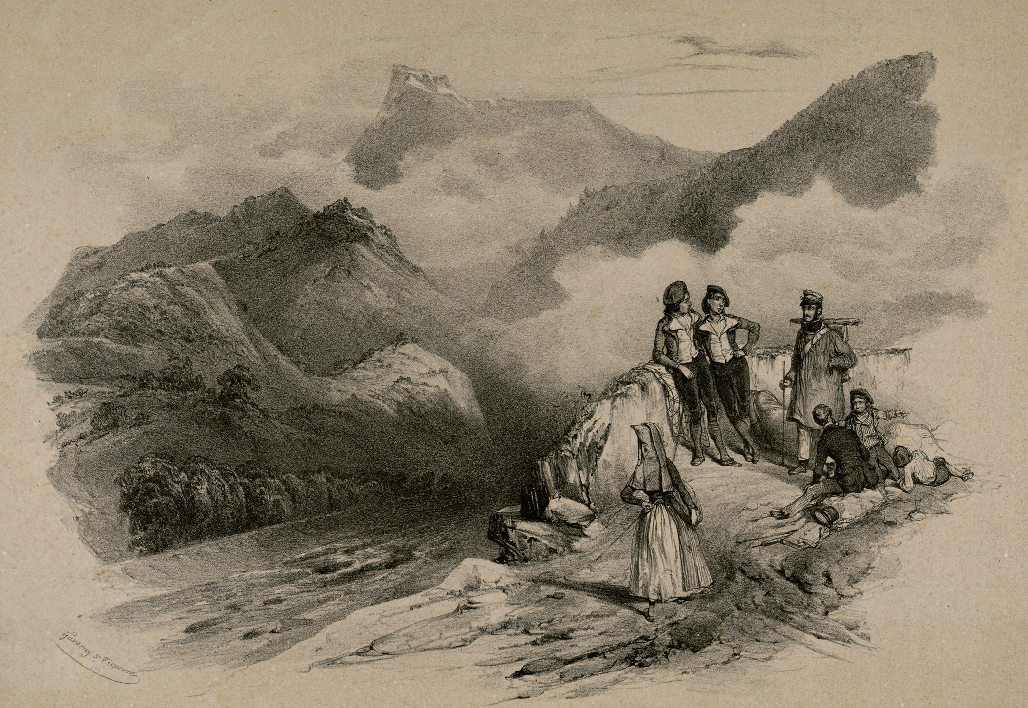 A drawing of the Aussau Valley (Gascony, Occitania) by Paul Gavarni